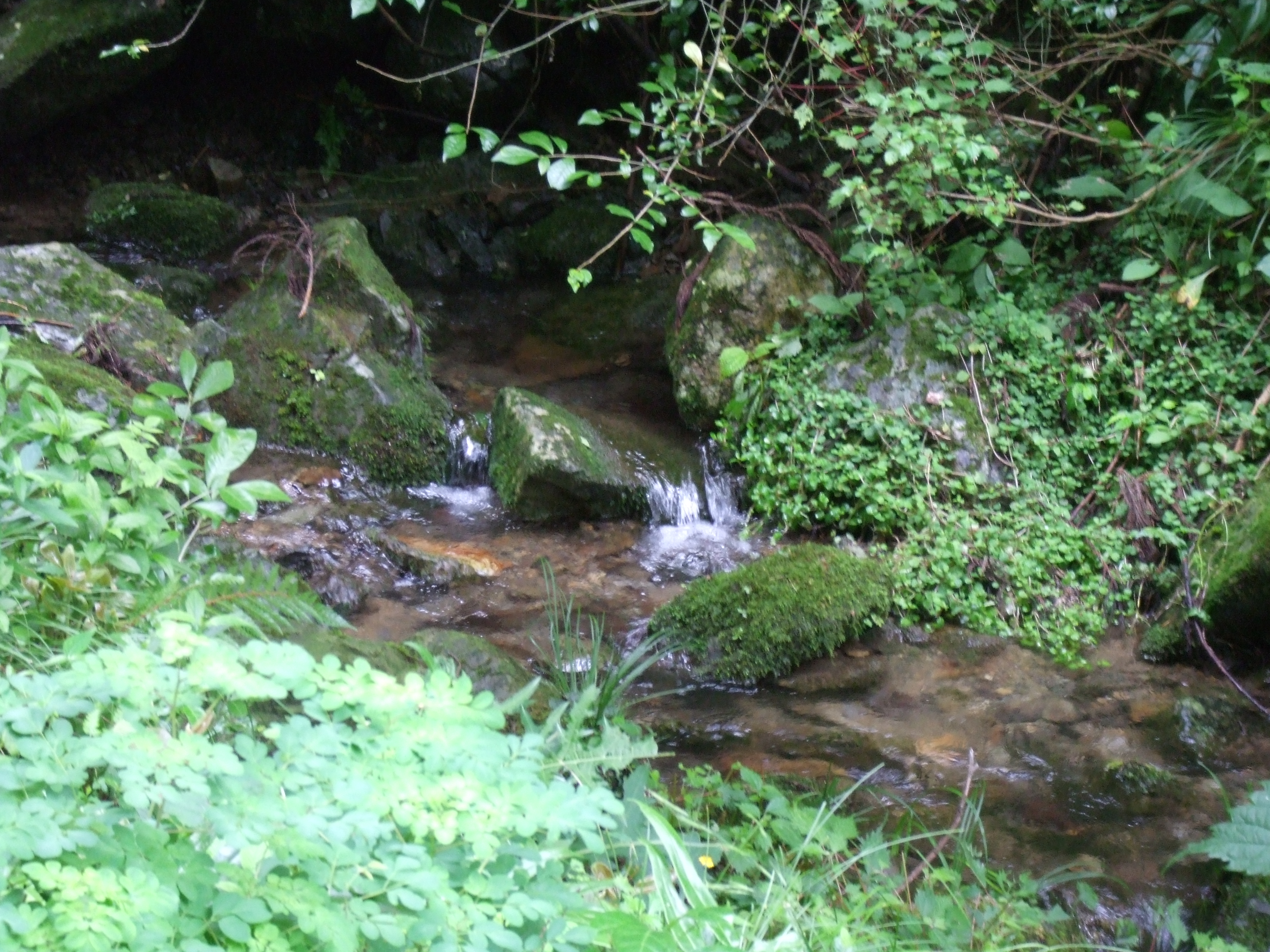 A source of Mukogawa River, Hyogo, Japan.